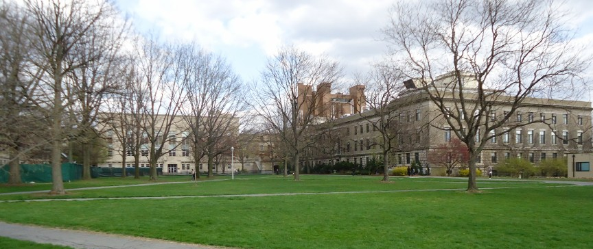 Mann Library (left) and Plant Sciences Building (right). A photo from a campus visit to Cornell on April 9, 2012 (actual date of photo).